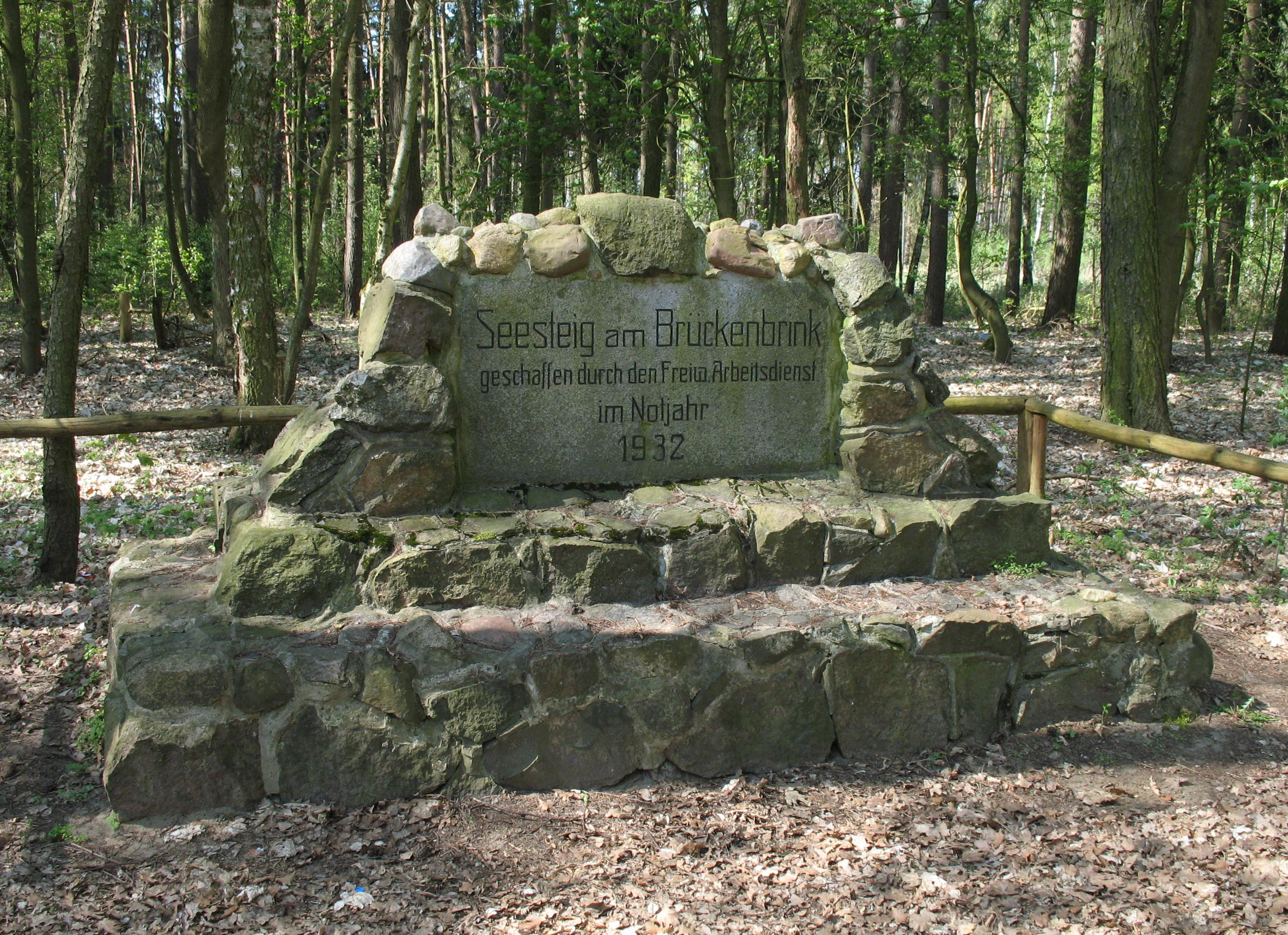 Memorial stone in Kyritz in Brandenburg, Germany